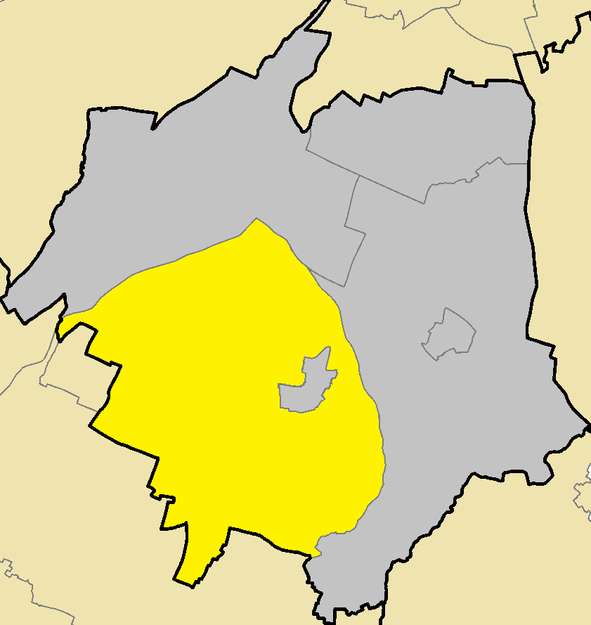 Agios Vasileios in Strovolos.